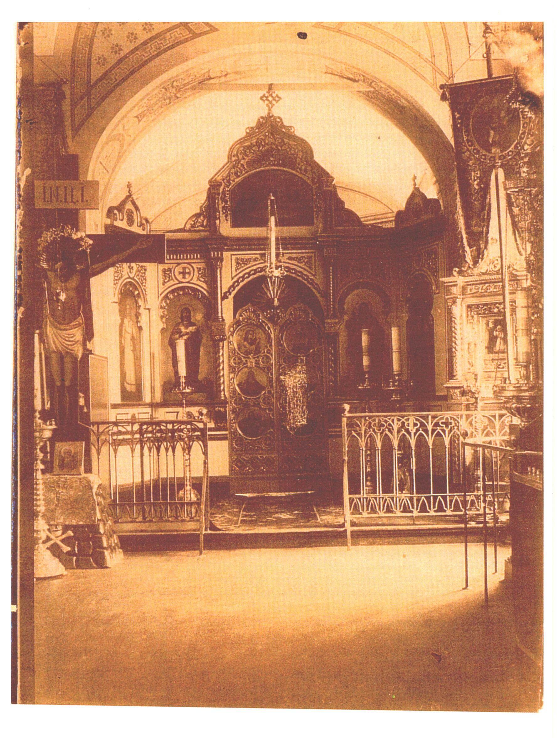 Ust-Izhora (Russia), St. Alexander Nevsky church.